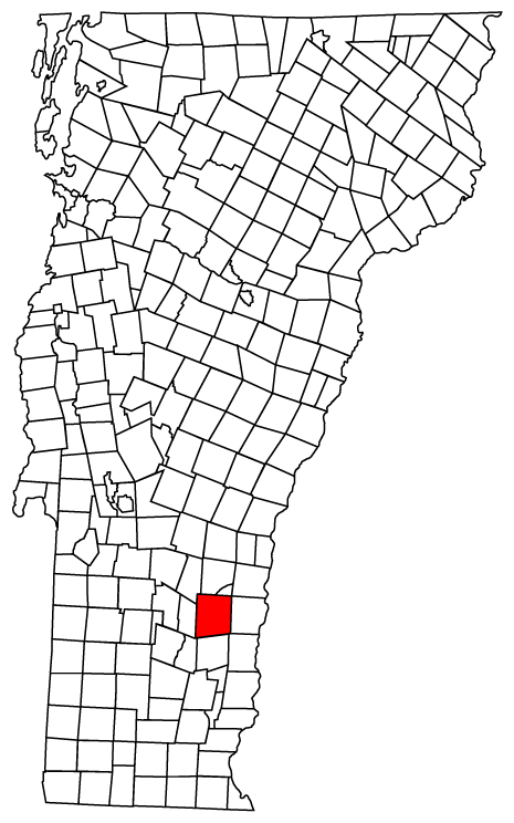 Description: Map of Vermont towns with Chester highlighted Source: Map created by Jared C. Benedict on 26 March 2004. Copyright: © Jared C. Benedict.